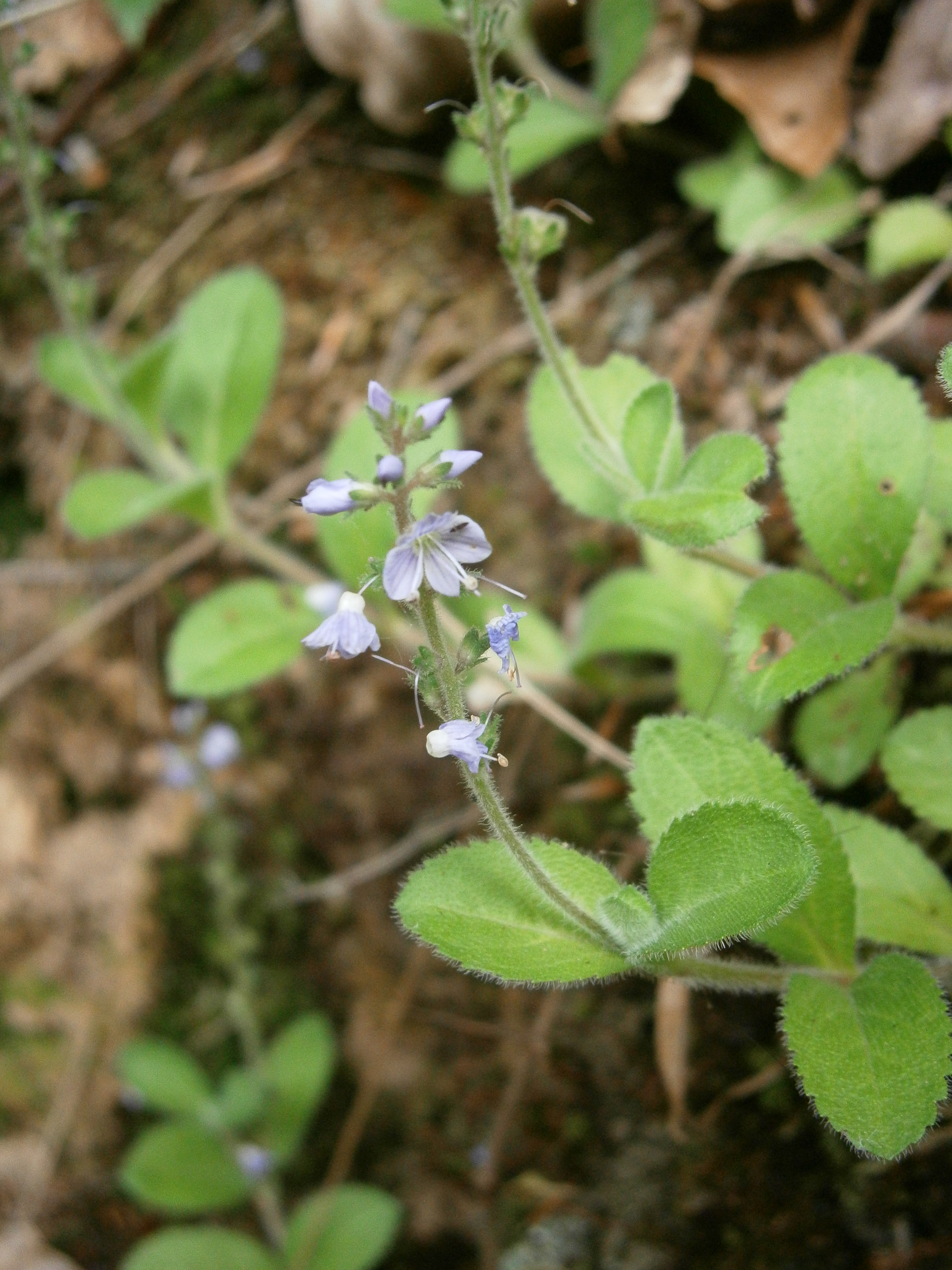 Veronica officinalis